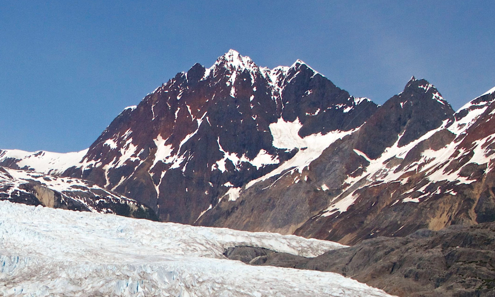 Black Mountain with snow